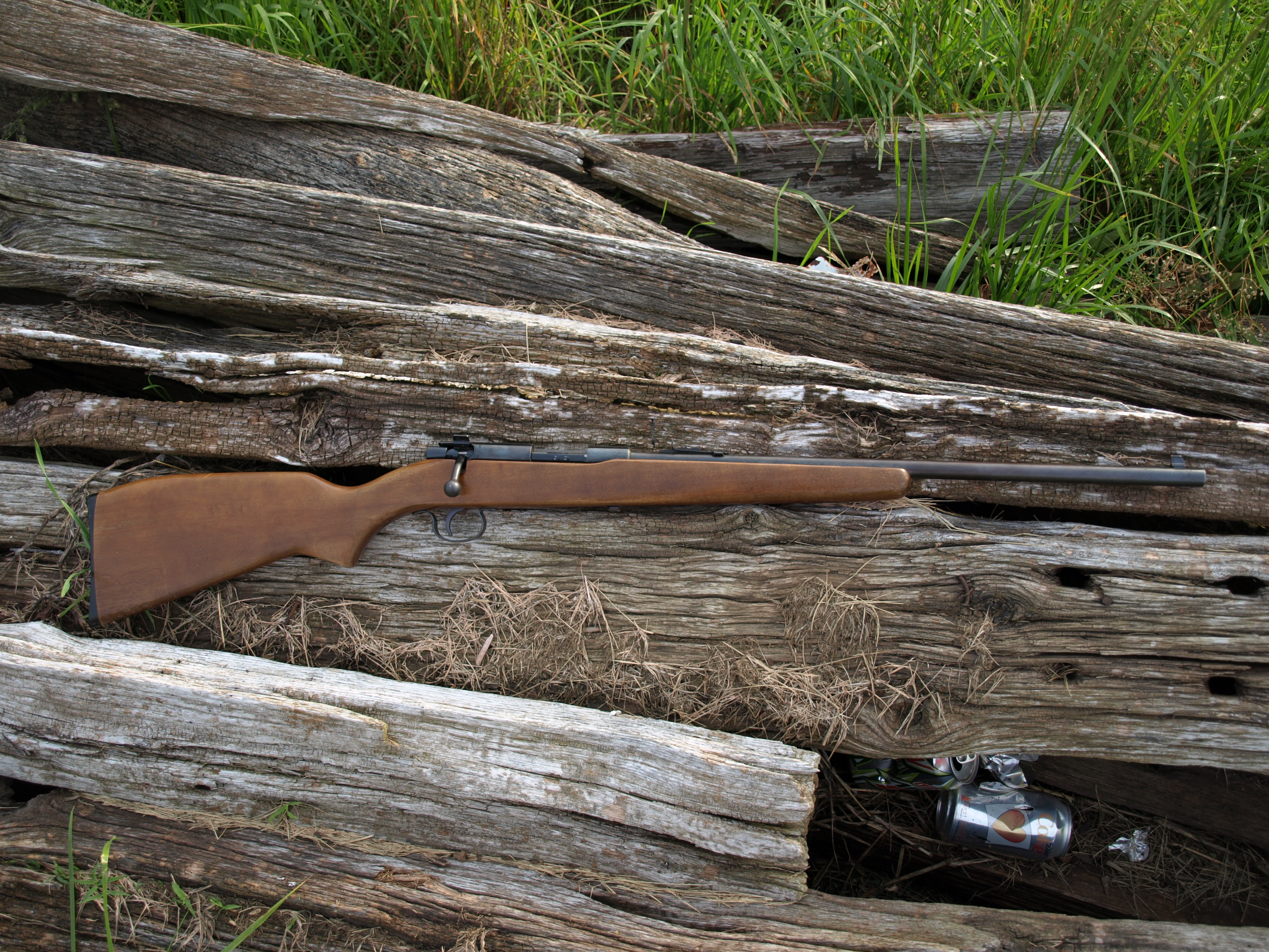 !967 Winchester 121 rifle chambered in .22 LR